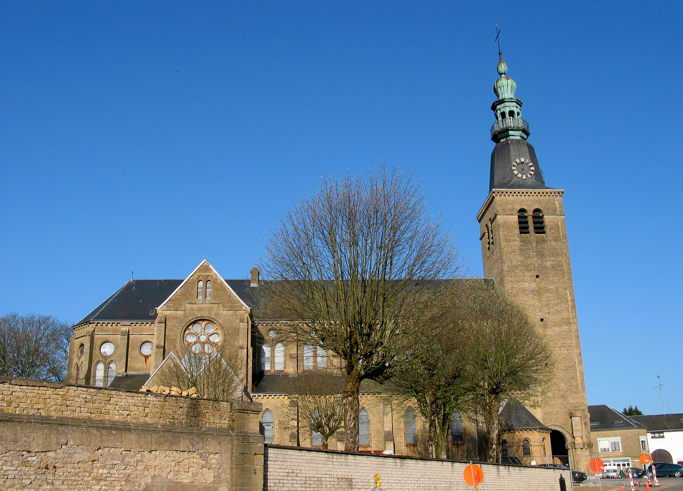 Florenville, Belgium: the church of Our-lady of the Assumption (1873–1951).